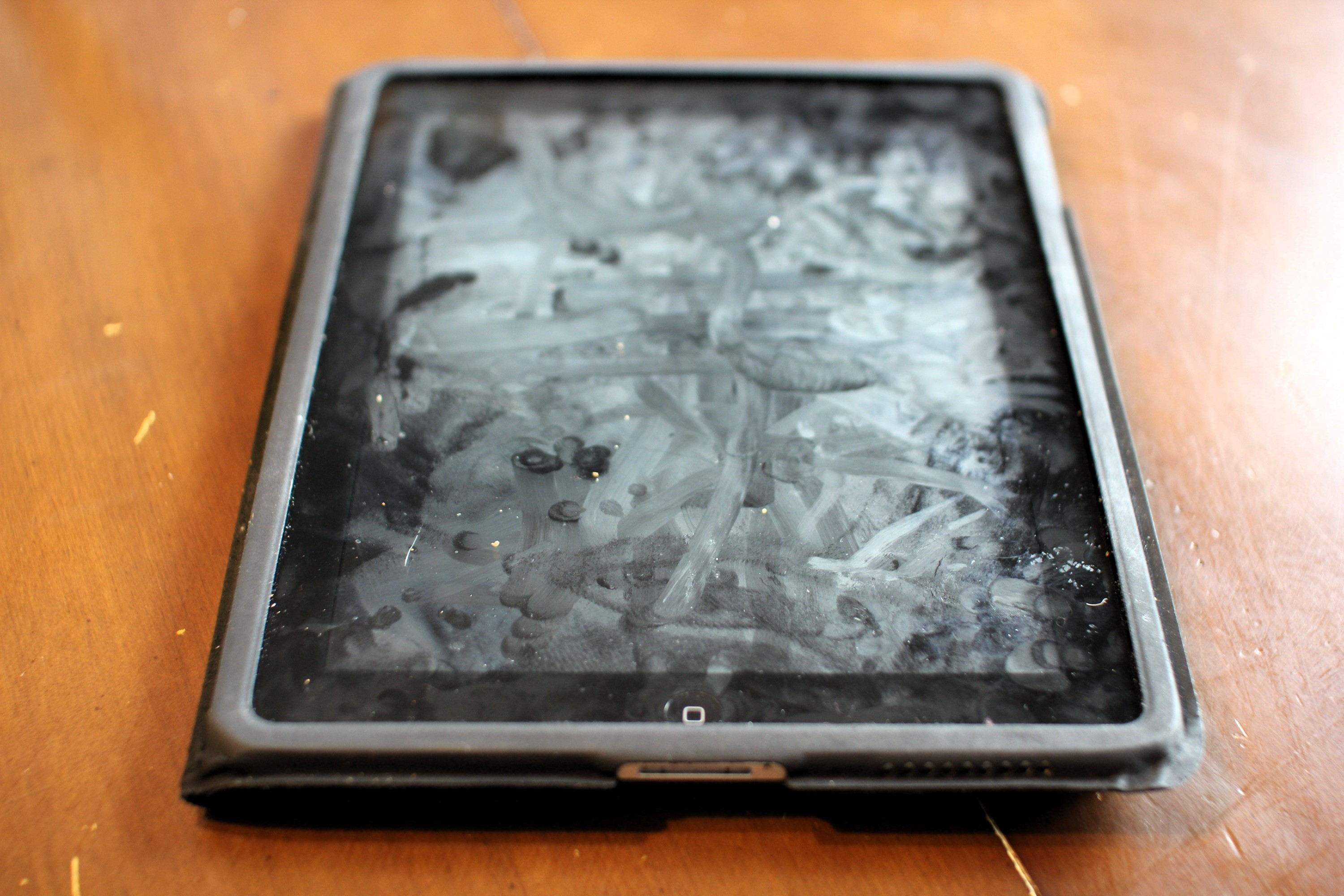 An iPad (first generation) with extensive fingerprints and smudges on the touchscreen. It had been used recently by young children. It is in an Apple case designed for the first generation iPad.